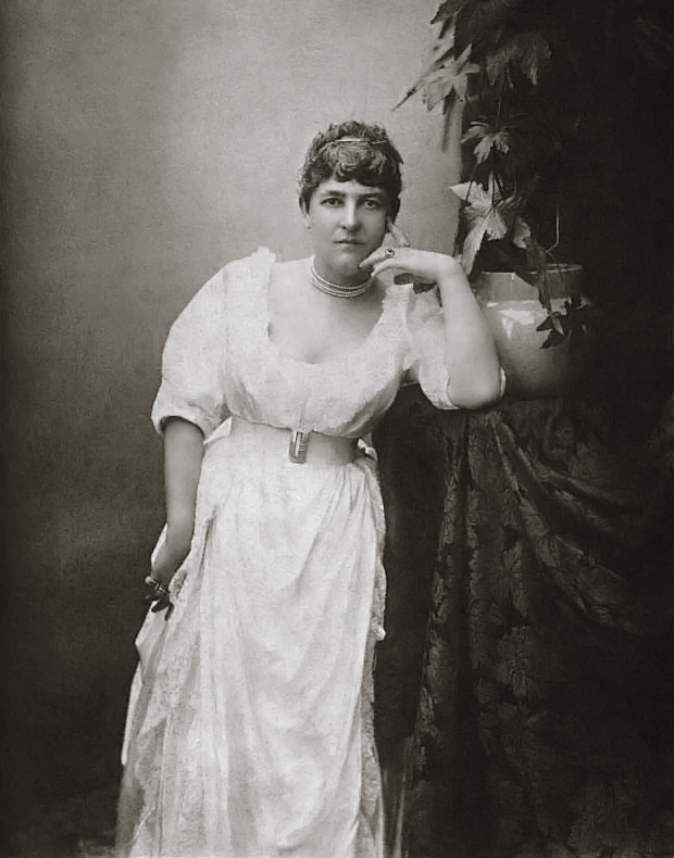 Portrait of Fanny Stevenson; wife of Robert Louis Stevenson